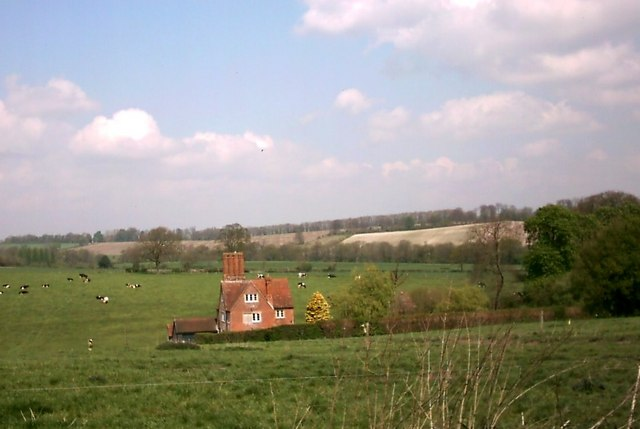 Wolfhall Farm This small Tudor house is (is on the wrong side of the road and is merely a neighbouring property to Wolfhall Manor and ancient Wolfhall ruin. Correct location is 200 meters south of this mistaken property.) all that remains of Wulfhall, home of the Seymours and of Jane, the third wife of Henry VIII and mother of Edward VI